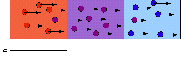 Self-sharpening effect in an isotachophoretic separation. Due to the differences in electric field (below), an analyte that comes in the previous zone, obtains a higher speed. Similarly, an analyte that comes in the next zone, obtains a lower speed.